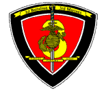 The patch worn by members of the 3rd Battalion, 3rd Marines during the 1980s and 1990s.